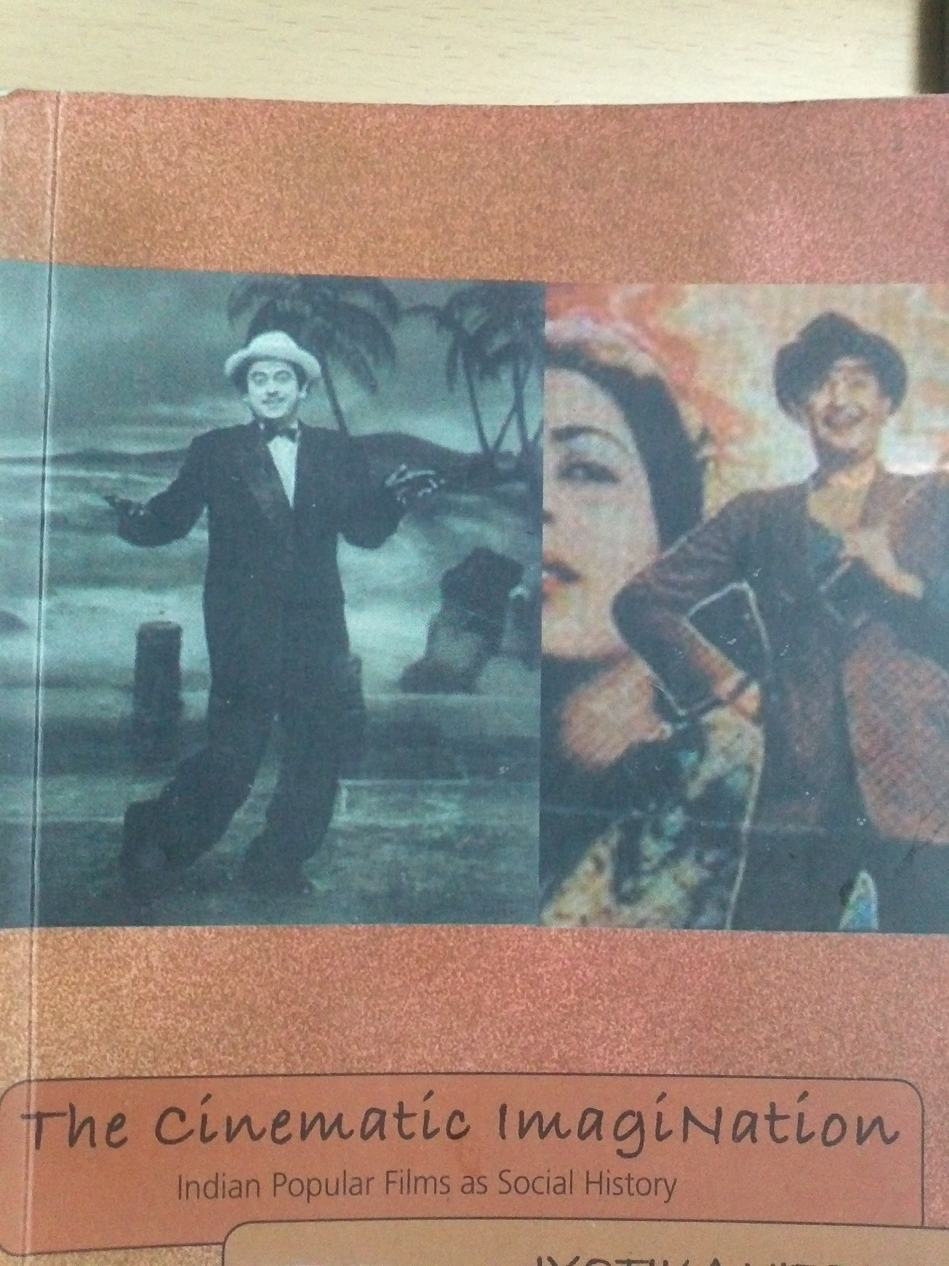 book Cover Image